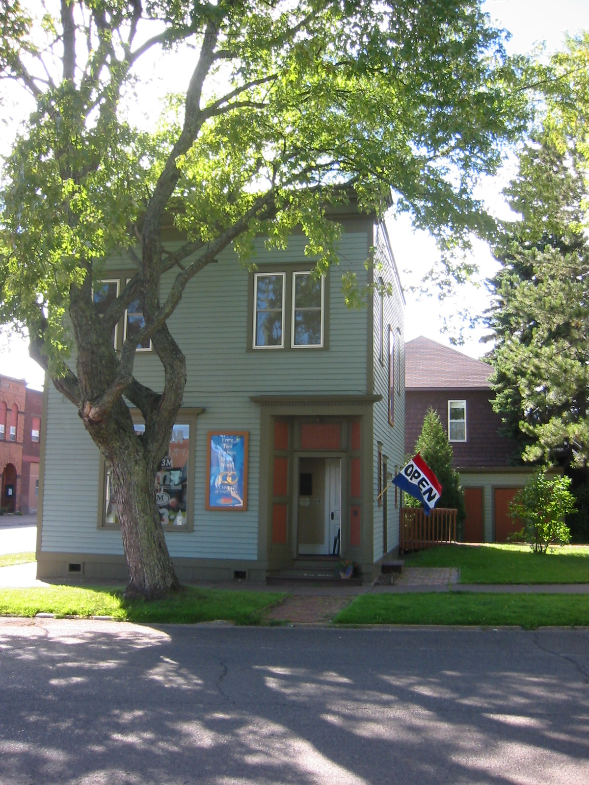 The John Dwan Office Building in Two Harbors, Minnesota, which is the building where w:3M was founded in 1902. The building is now a museum depicting 3M's history.